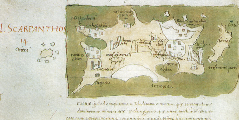 Cristoforo Buondelmonti, Liber Insularum Archipelagi (1420), Karpathos island, Aegean Sea